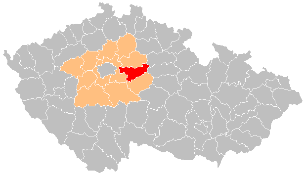 Kolín District within Central Bohemian Region.Current borders of districts since January 1, 2007.